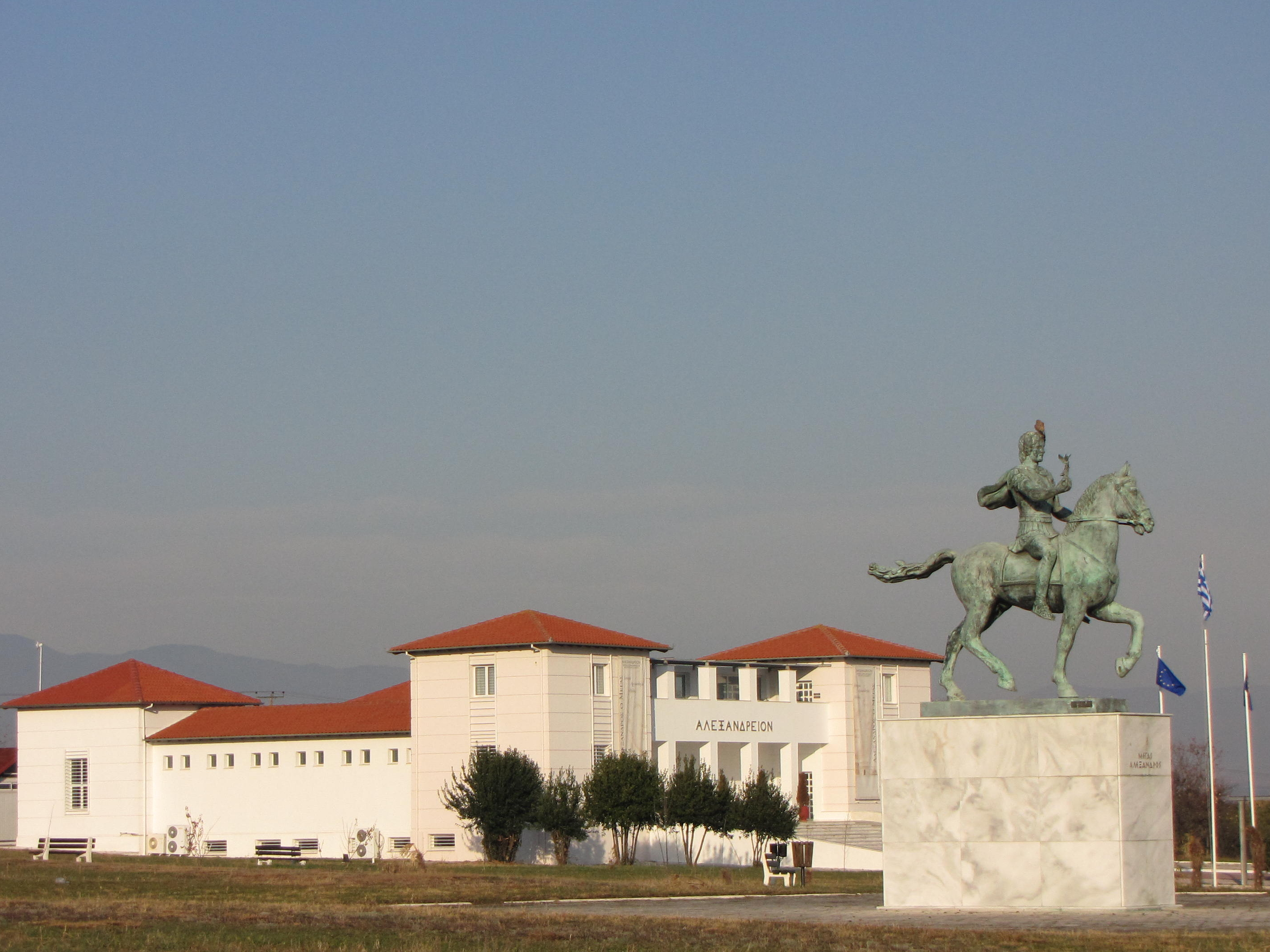 Alexandreion